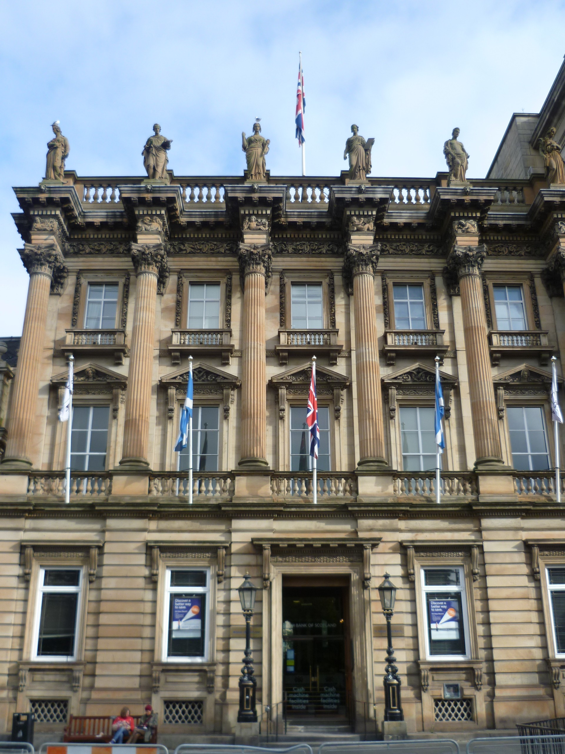 The Bank's former Head Office in St Andrew Square, Edinburgh, now offices of the Bank of Scotland.